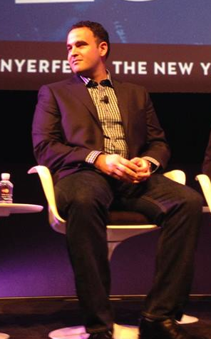 Kevin Sabet, Co-Founder and President of Smart Approaches to Marijuana